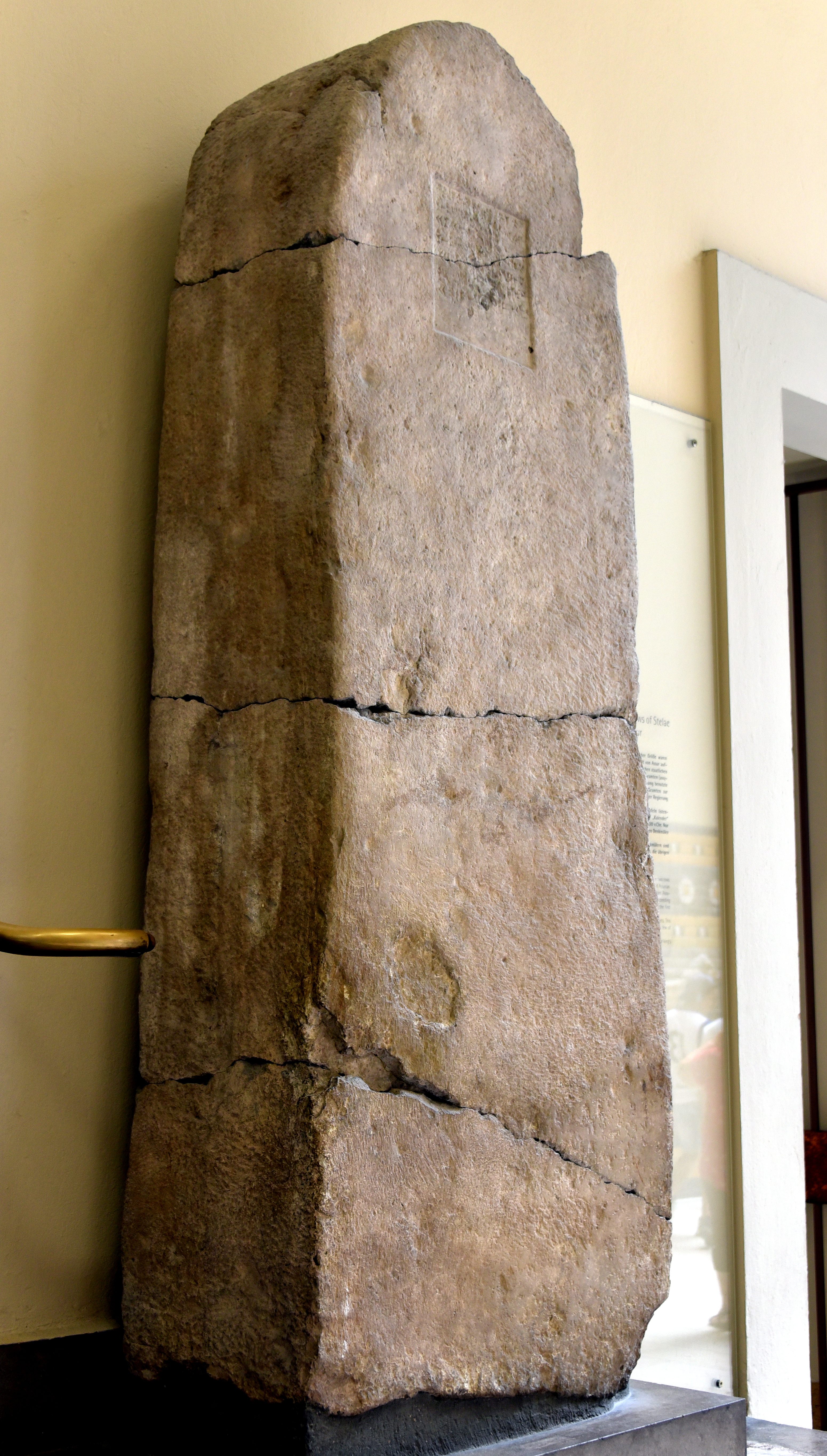 The cuneiform inscription in the upper part of the stele states that Shammuramat (Sammurāmat or Sammuramāt) is the wife (and palace women) of Shamshi-Adad V, king of all, king of Ashur; the mother of Adad-Nirari III, king of all, king of Ashur; and the daughter in law of Shalmaneser III, king of the four corners of the world. From the Rows of Stelae (Stelenreihen) at Assur (Ashur), Iraq. Neo-Assyrian period, circa 809 BCE. On display at the Pergamon Museum, Berlin, Germany.